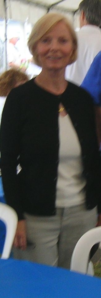 Joan Freeman, American actress